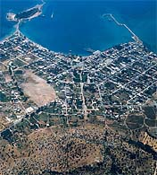 aerial view of the city of Eretria (Euboea)